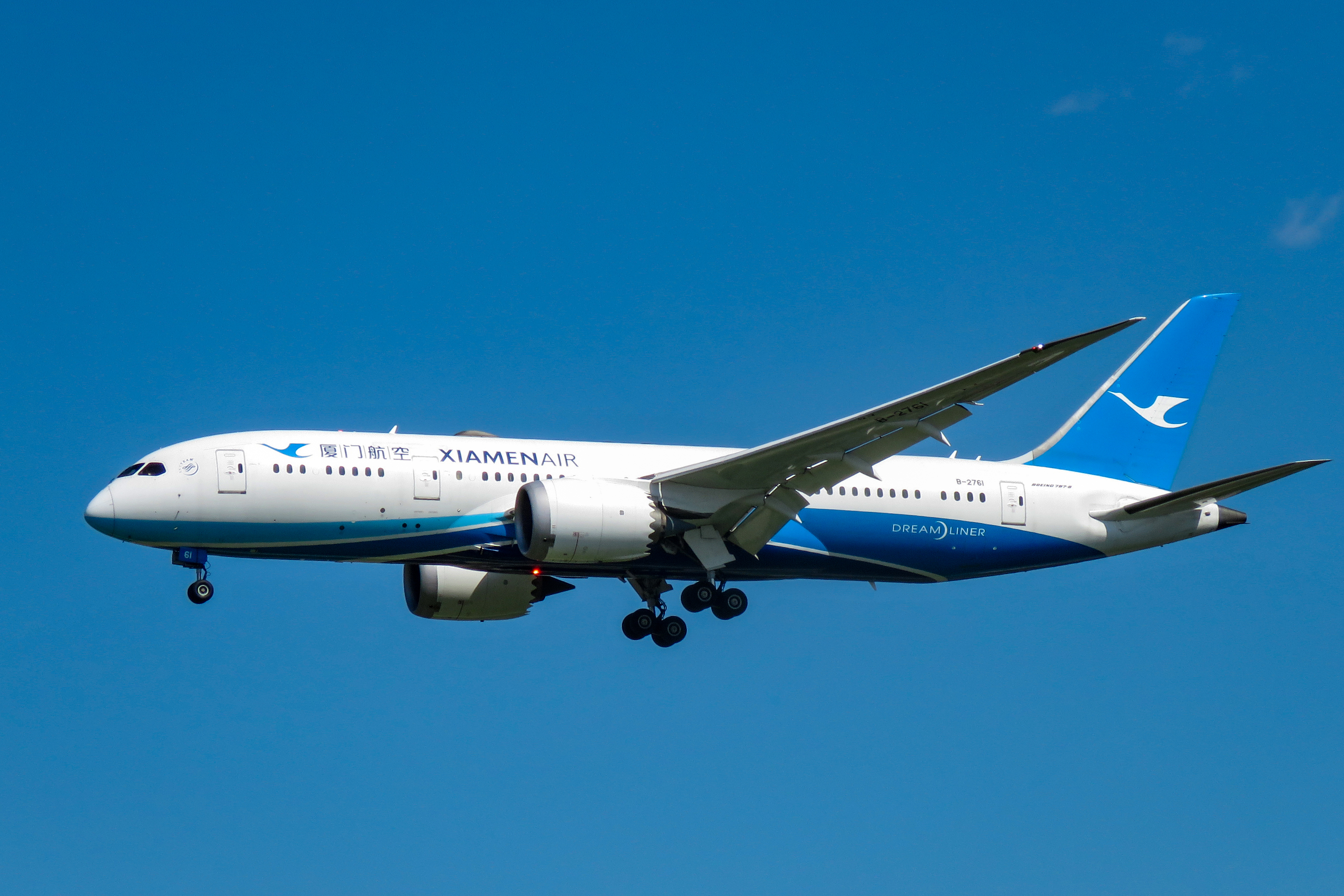 Egret 8107 from Fuzhou. So I've got all of them?